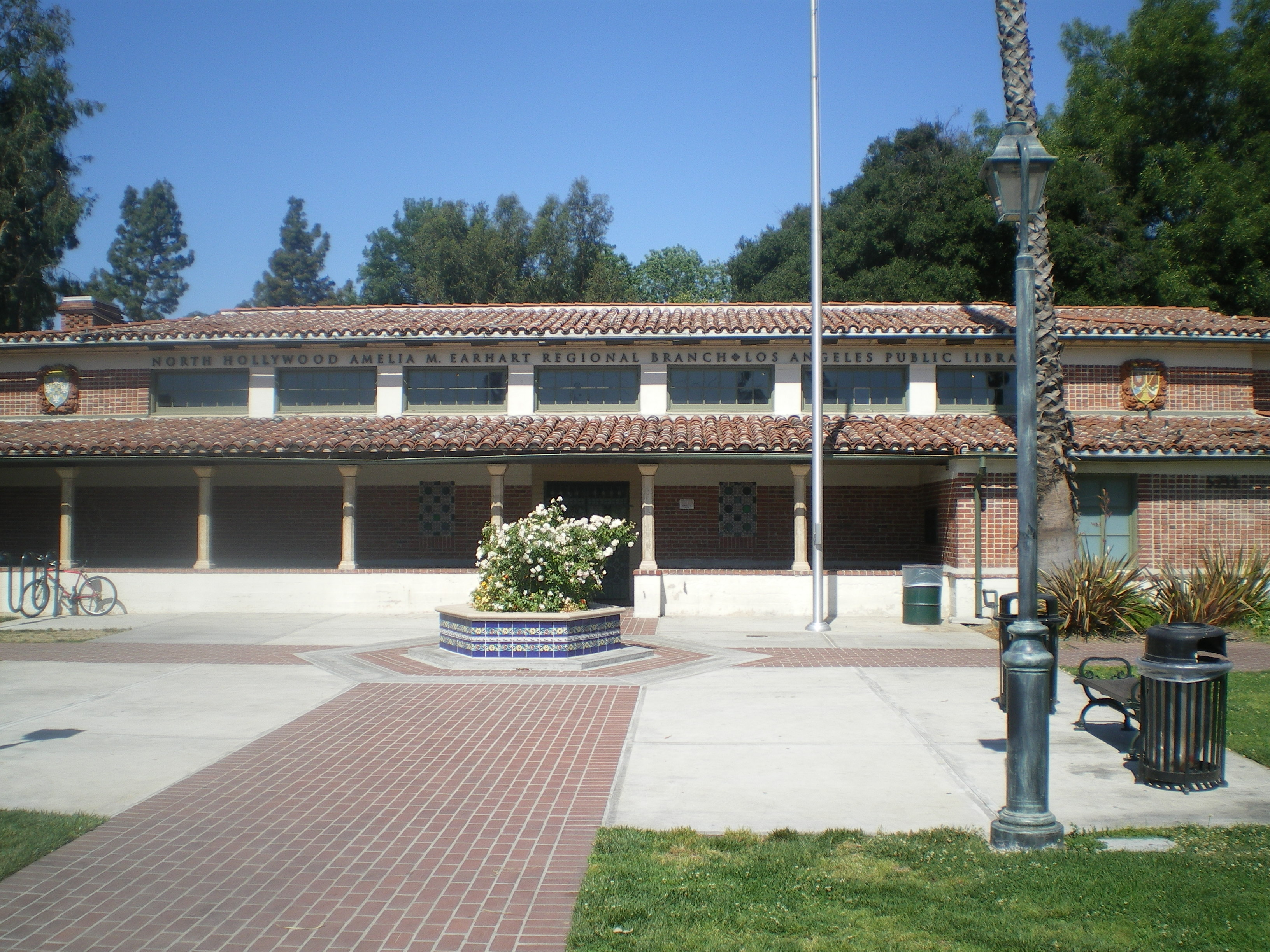 North Hollywood Amelia M. Earhart Branch Library, in North Hollywood - eastern San Fernando Valley. Los Angeles Historic-Cultural Monument and on the National Register of Historic Places. 5211 N. Tujunga Ave., North Hollywood, Los Angeles, California